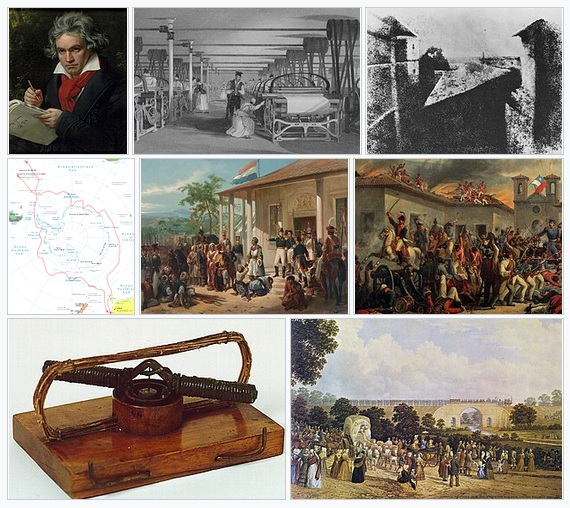 A montage of notable events in the 1820s.